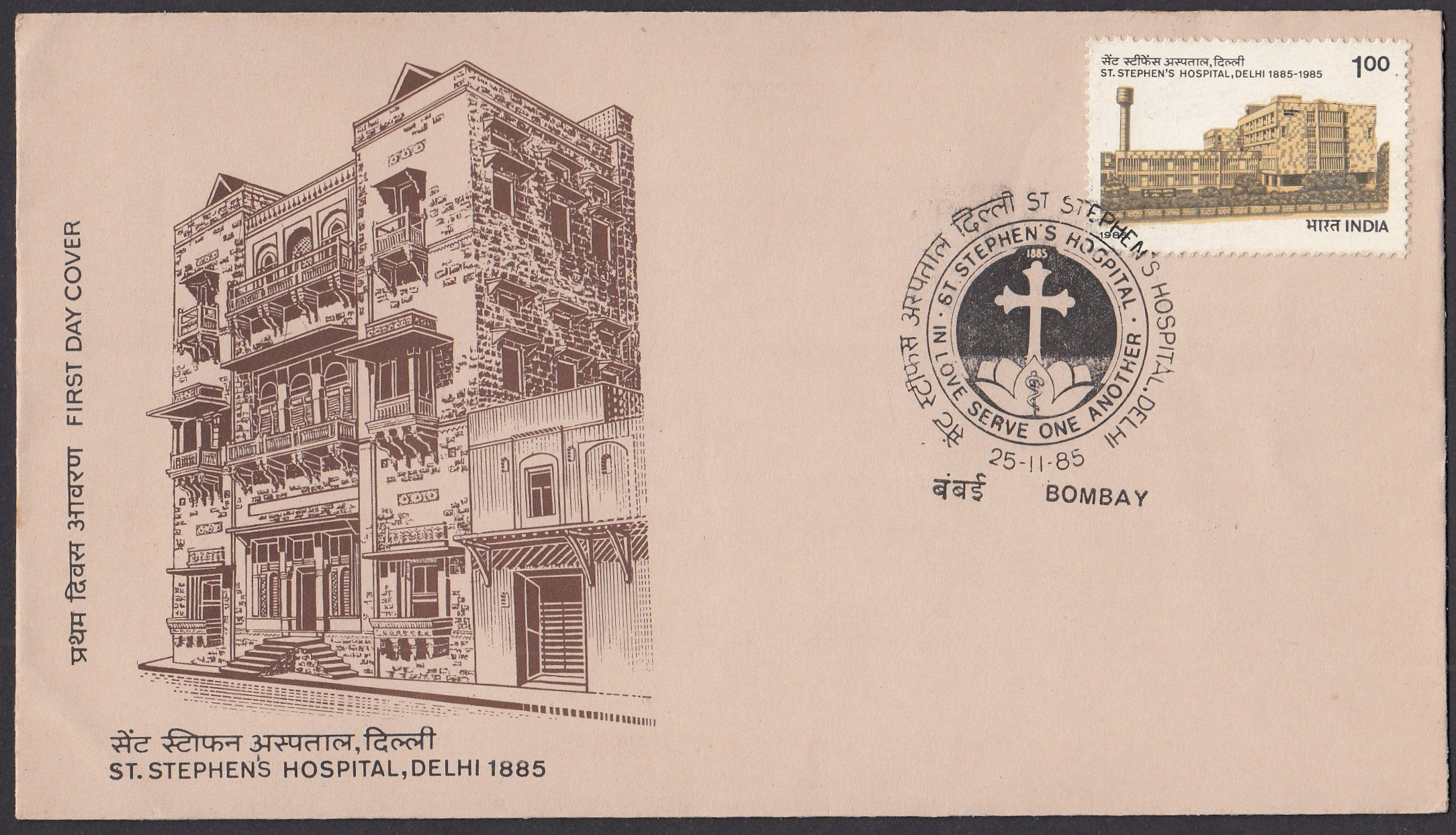 Commemorative centenary postcard released by India Post department in 1985